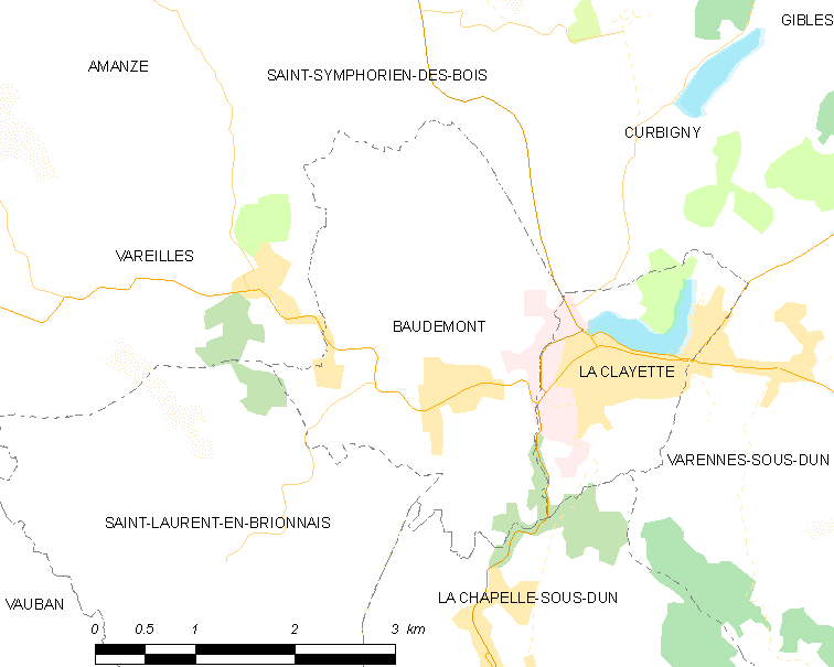 Map of French municipality